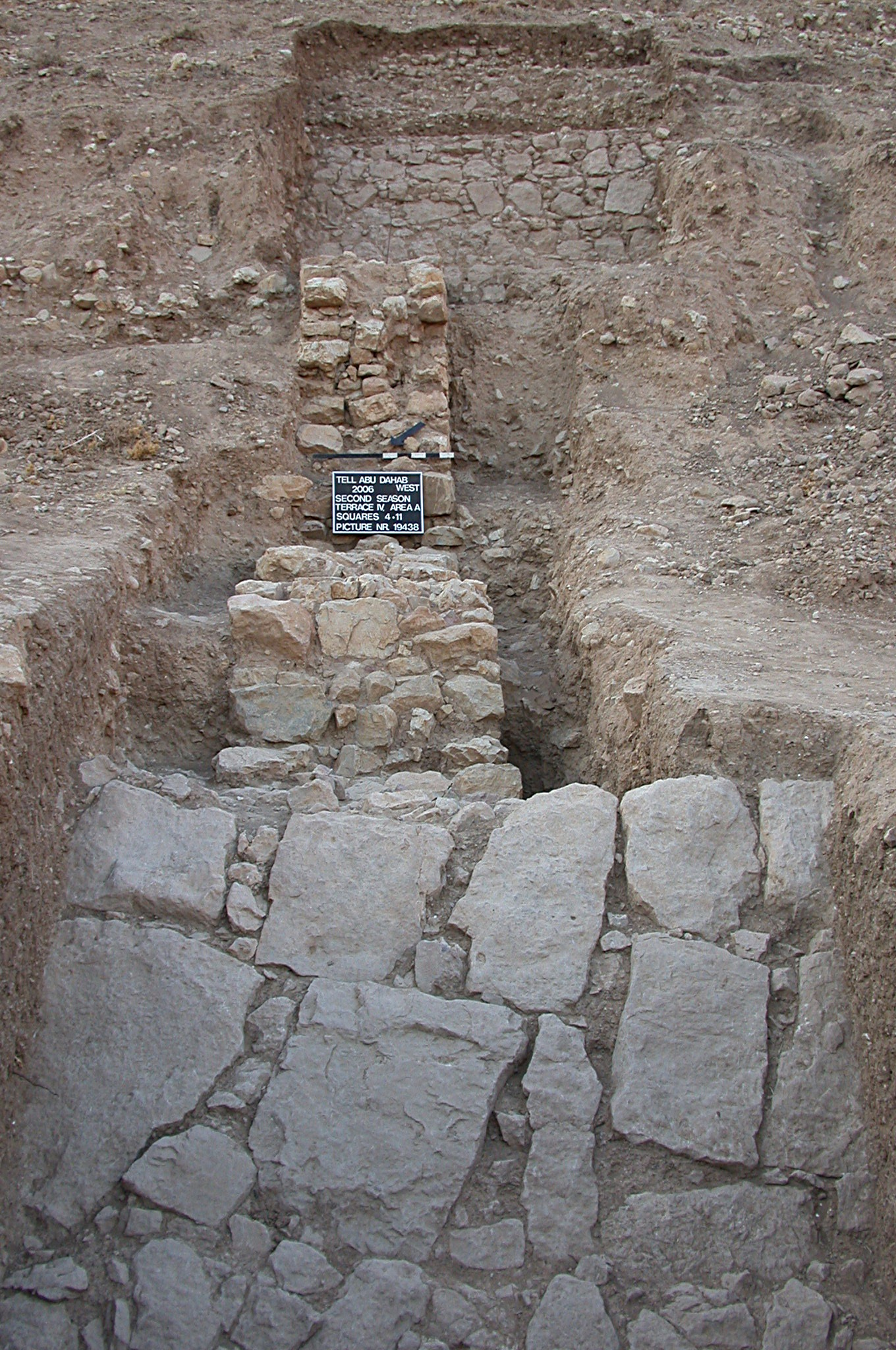 Tulul adh-Dhahab (Jordan): Ramparts on the northwestern flank of the western hill. The tell is heavily fortificated, the structure consists of a stone paved glacis and a casemate-like defence wall with numerous wall towers.